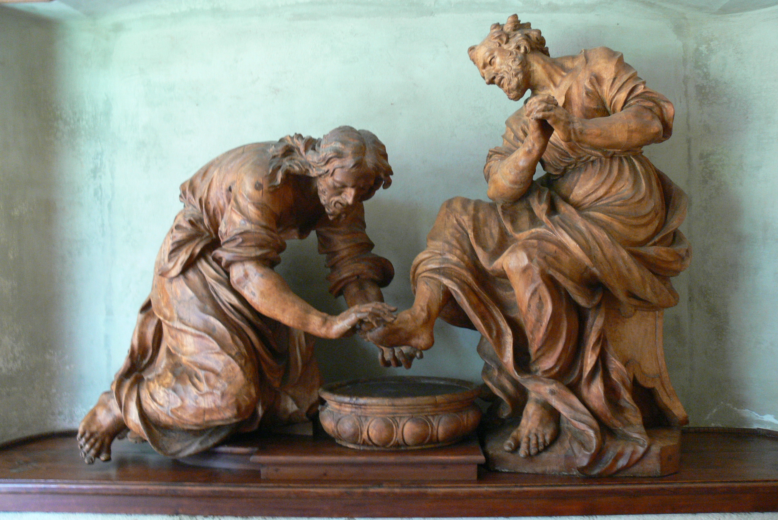 Heiligenkreuz abbey ( Lower Austria ). Cloisters - Statue of Christ washing the feet of saint Peter ( 18th century ), by Giovanni Giuliani.